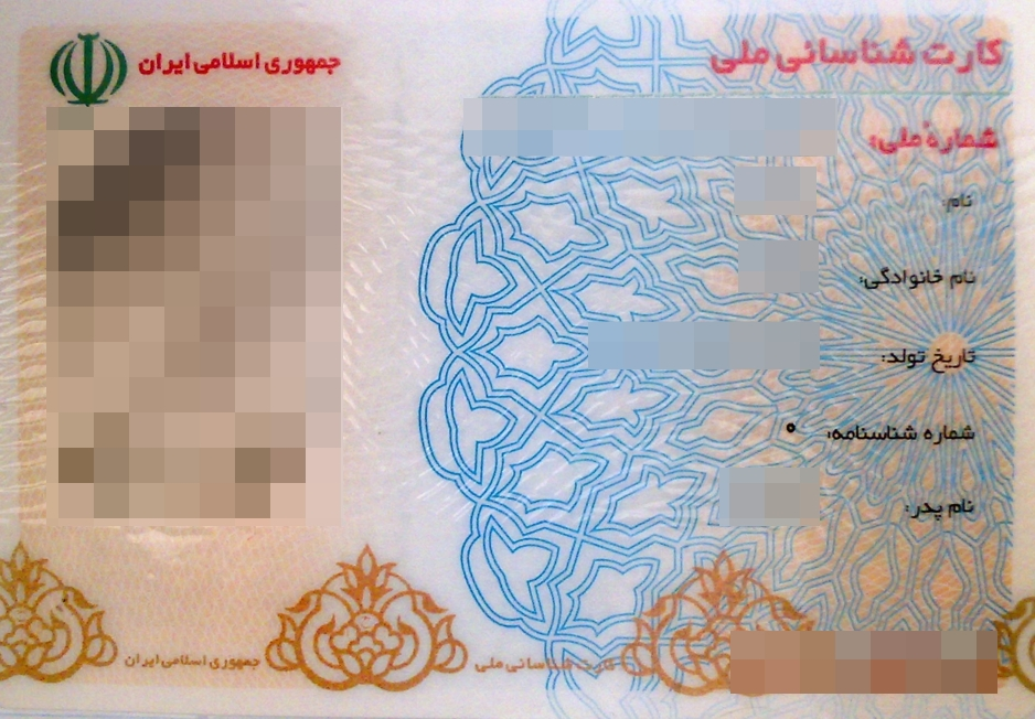 An example Iranian national identity card.